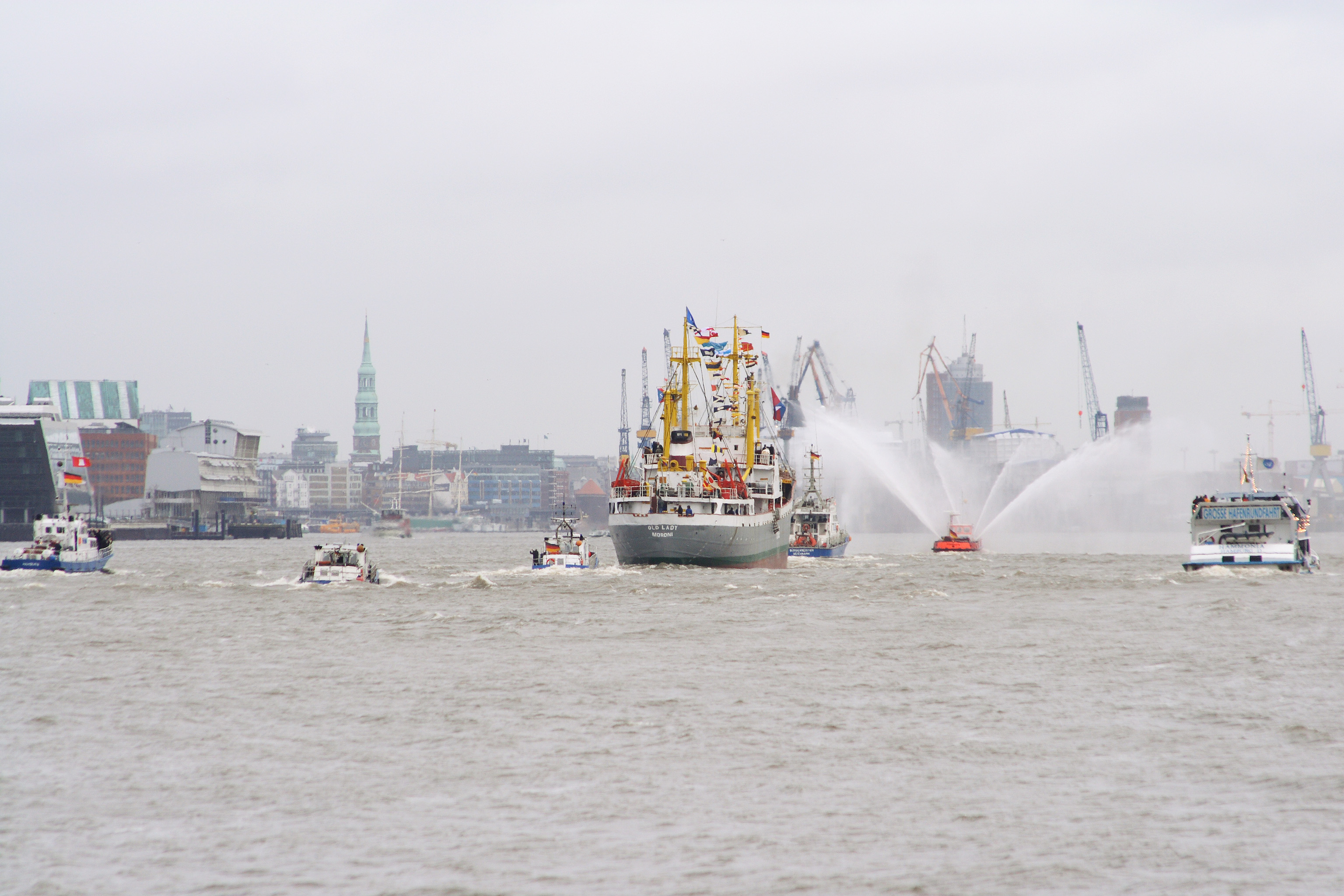 Old Lady, a general cargo ship, that was build in 1958, enters Hamburg Harbour, Germany.